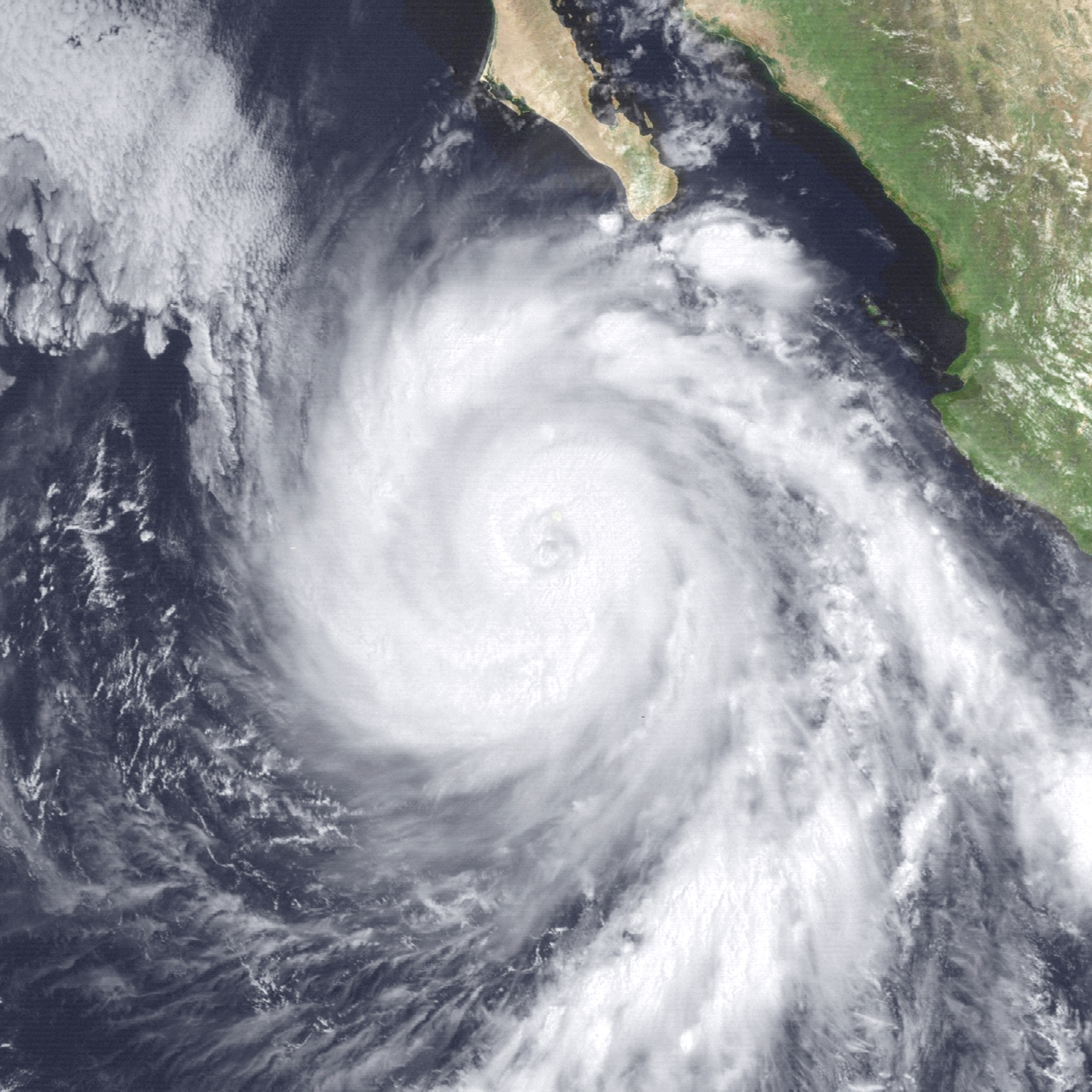 Hurricane Norman at peak intensity south of the Baja Peninsula on September 2, 1978